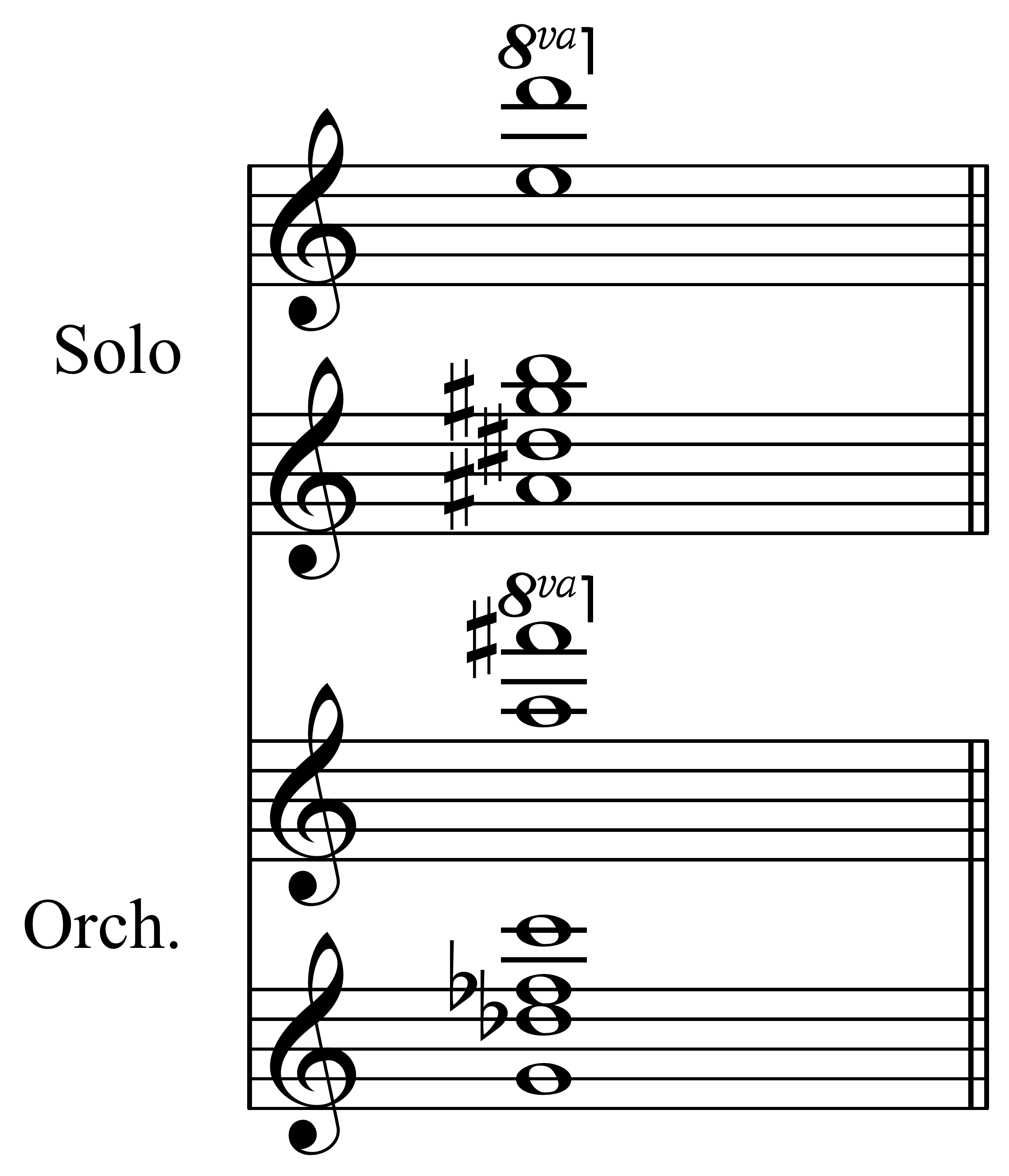 Combinatorial all-trichord hexachords from Elliott Carter's Piano Concerto, mm.59-60. Hexachord I: 0, 1, 2, 4, 7, 8 (6-z17A). Hexachord II: 0, 1, 2, 5, 6, 8 (6-z43A).